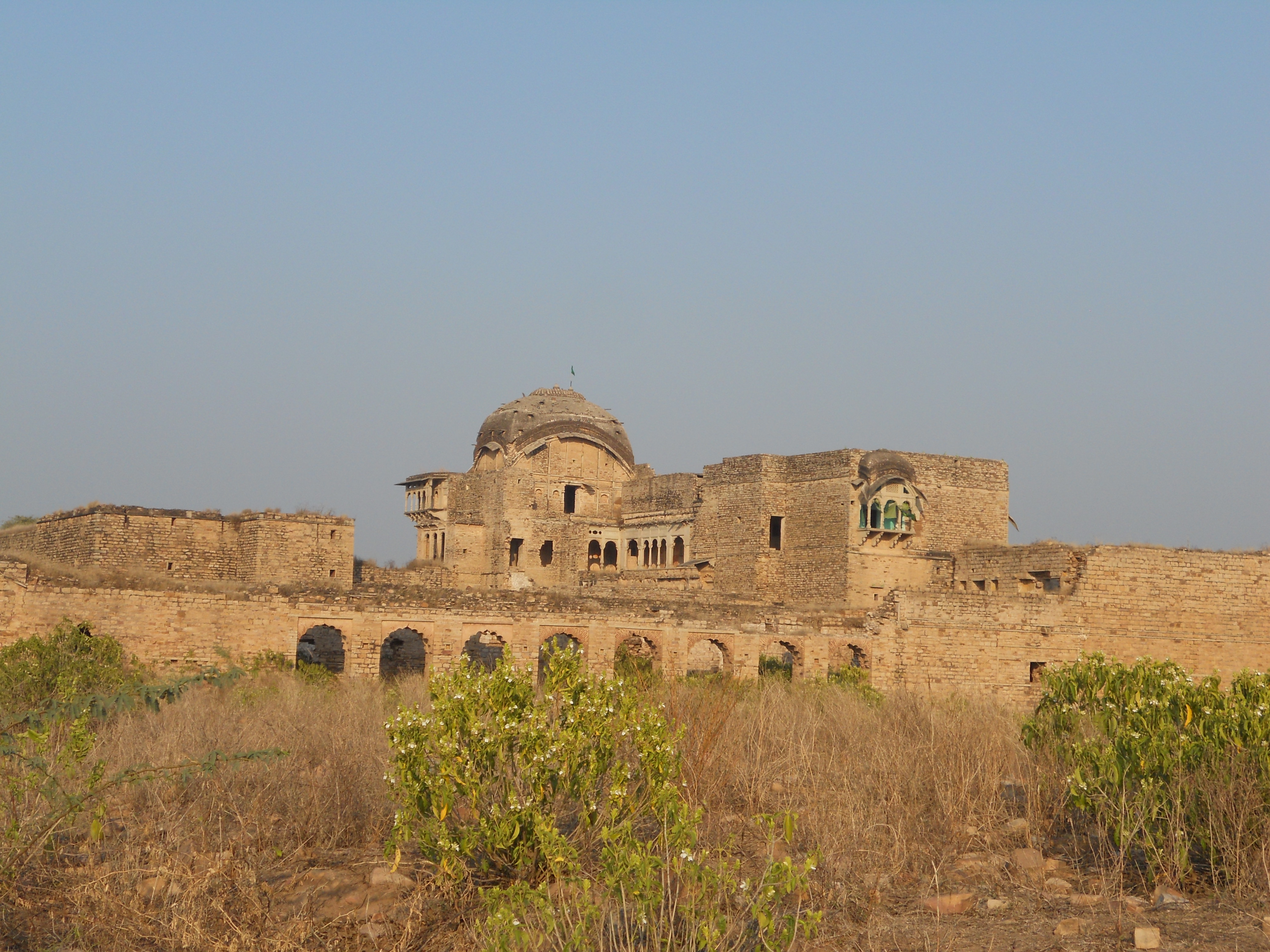 front view of sabalgarh fort